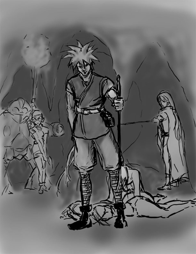 Concept art from Chrono Trigger: Crimson Echoes, an unreleased ROM hack fan game by Kajar Laboratories, based on the game Chrono Trigger developed and published by Square (now Square Enix).